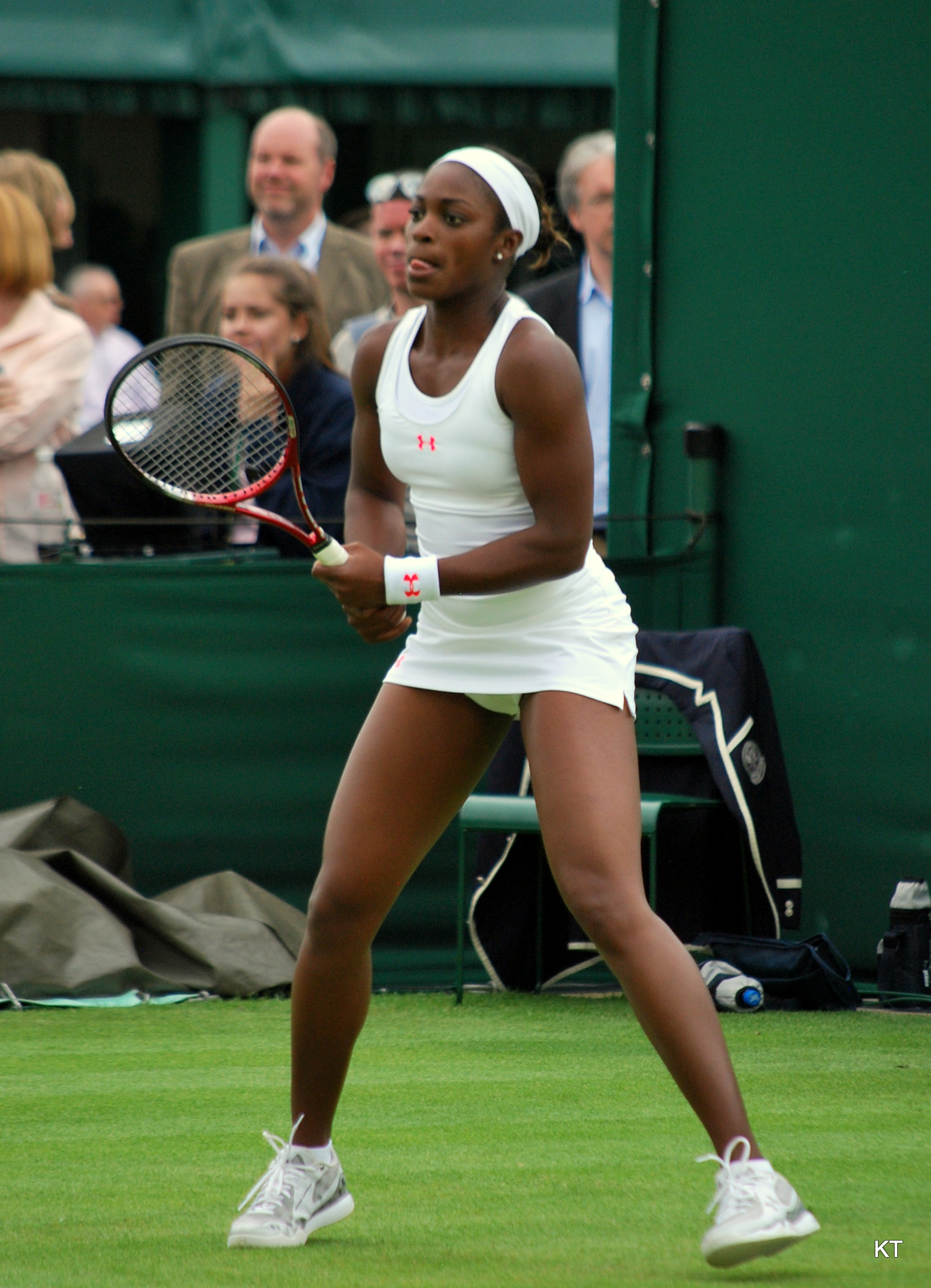 Sloane Stephens during her first round match with Karolina Pliskova on Day 1 of Wimbledon 2012.